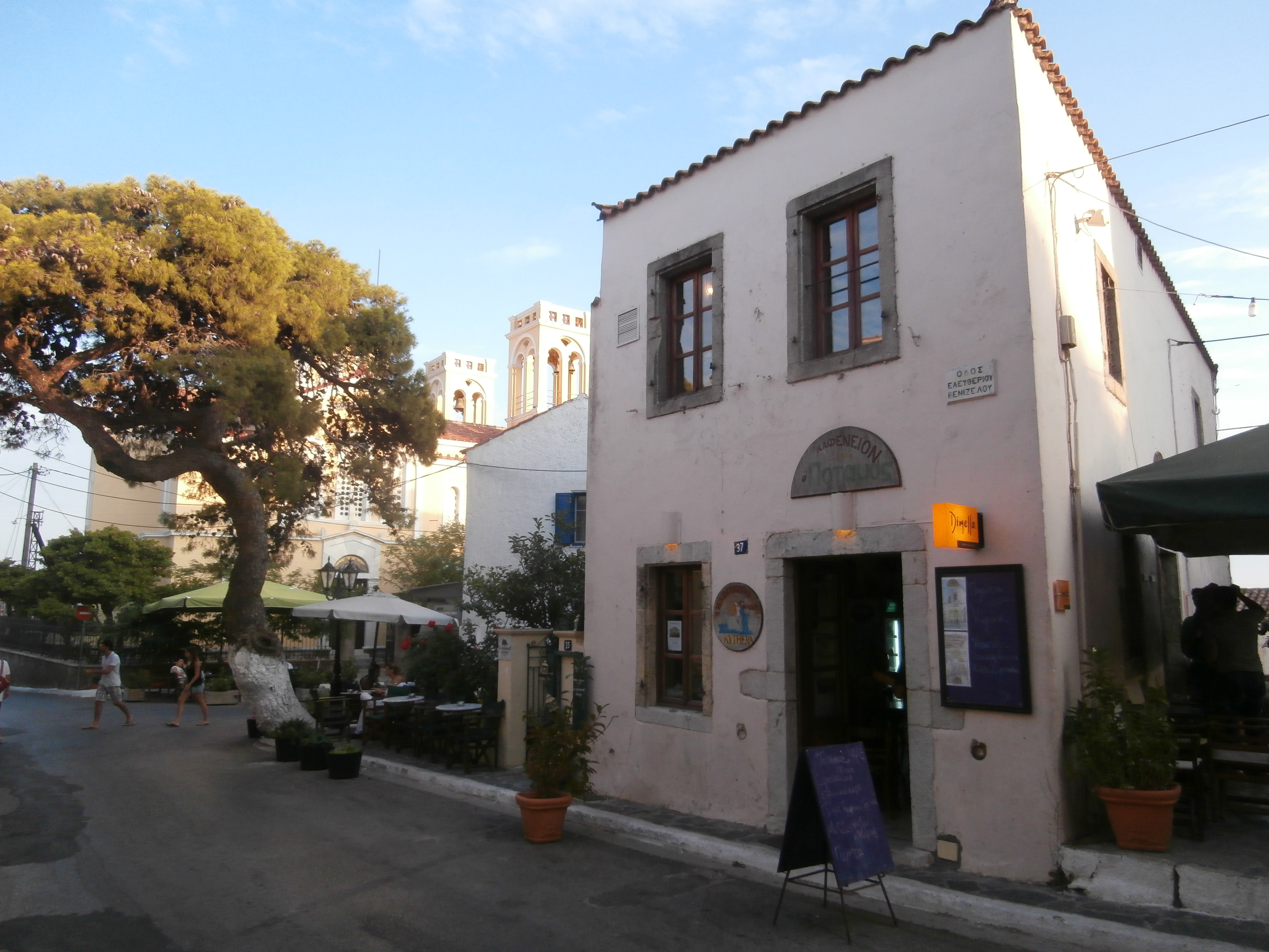 The traditional cafe Potamos at Potamos Kythira.